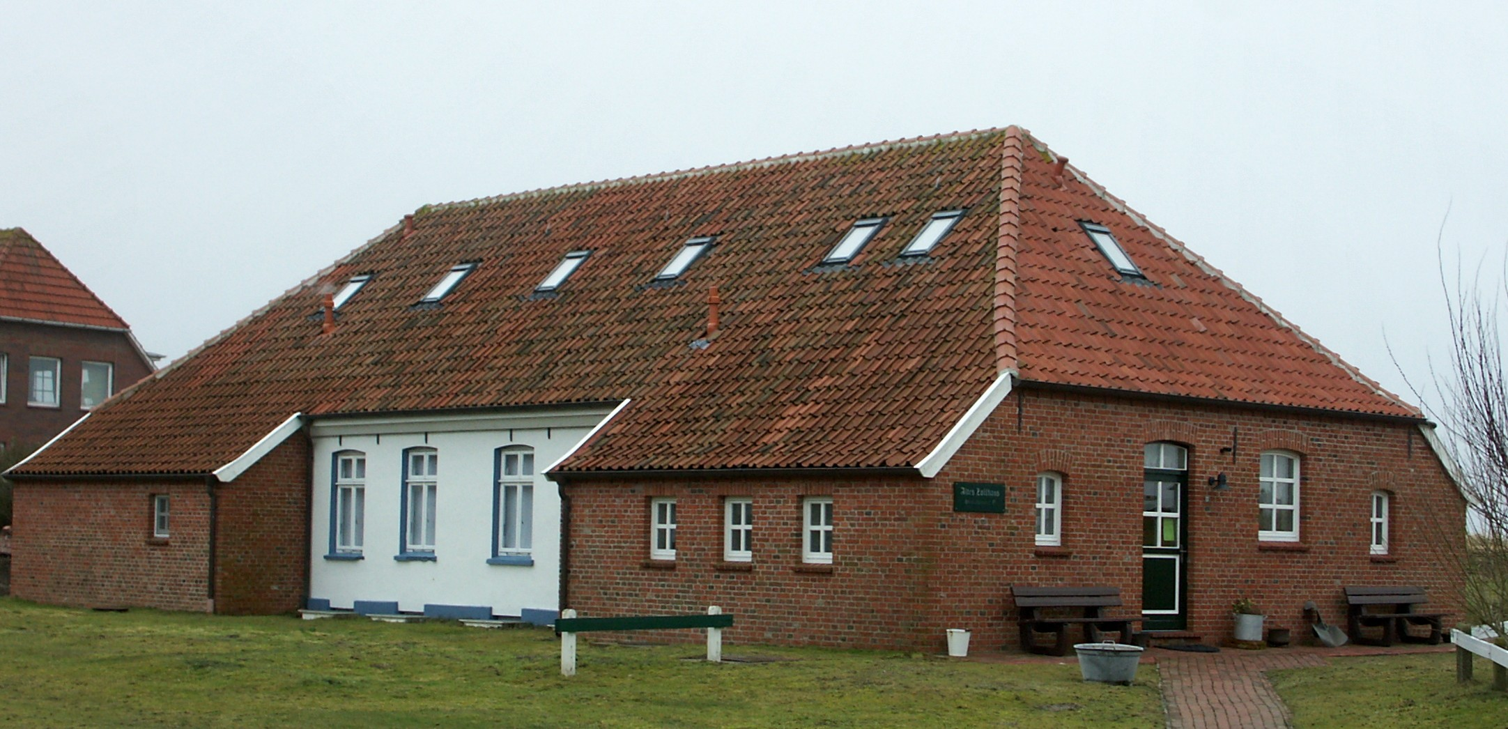 Baltrum museum of the "Heimatverein" (Cultural-historical society Baltrum)